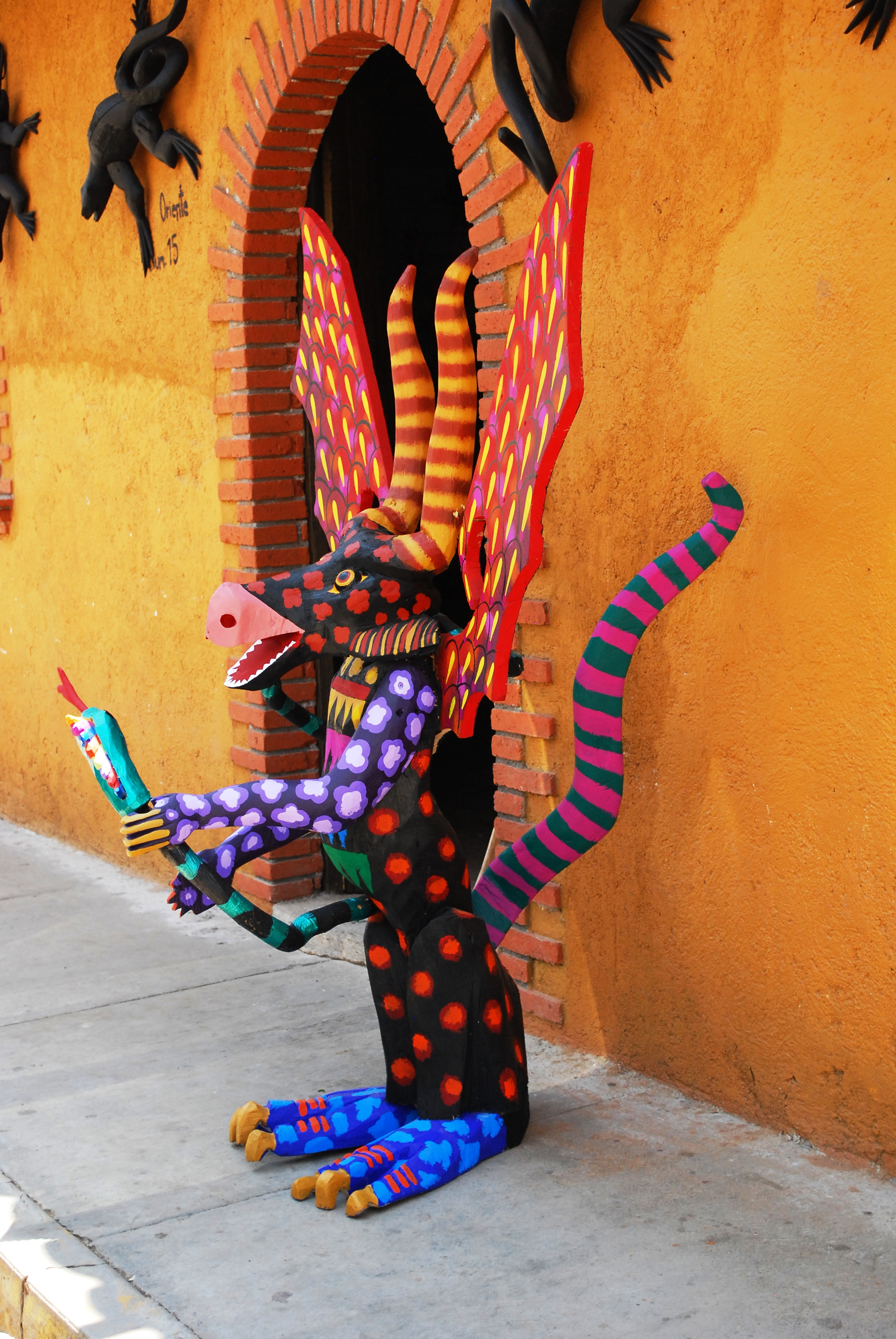 Large alebrije in front of a crafts shop in San Martín Tilcajete, Oaxaca, Mexico